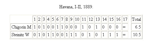 World Chess Championship 1889 Steinitz - Chigorin Title Match